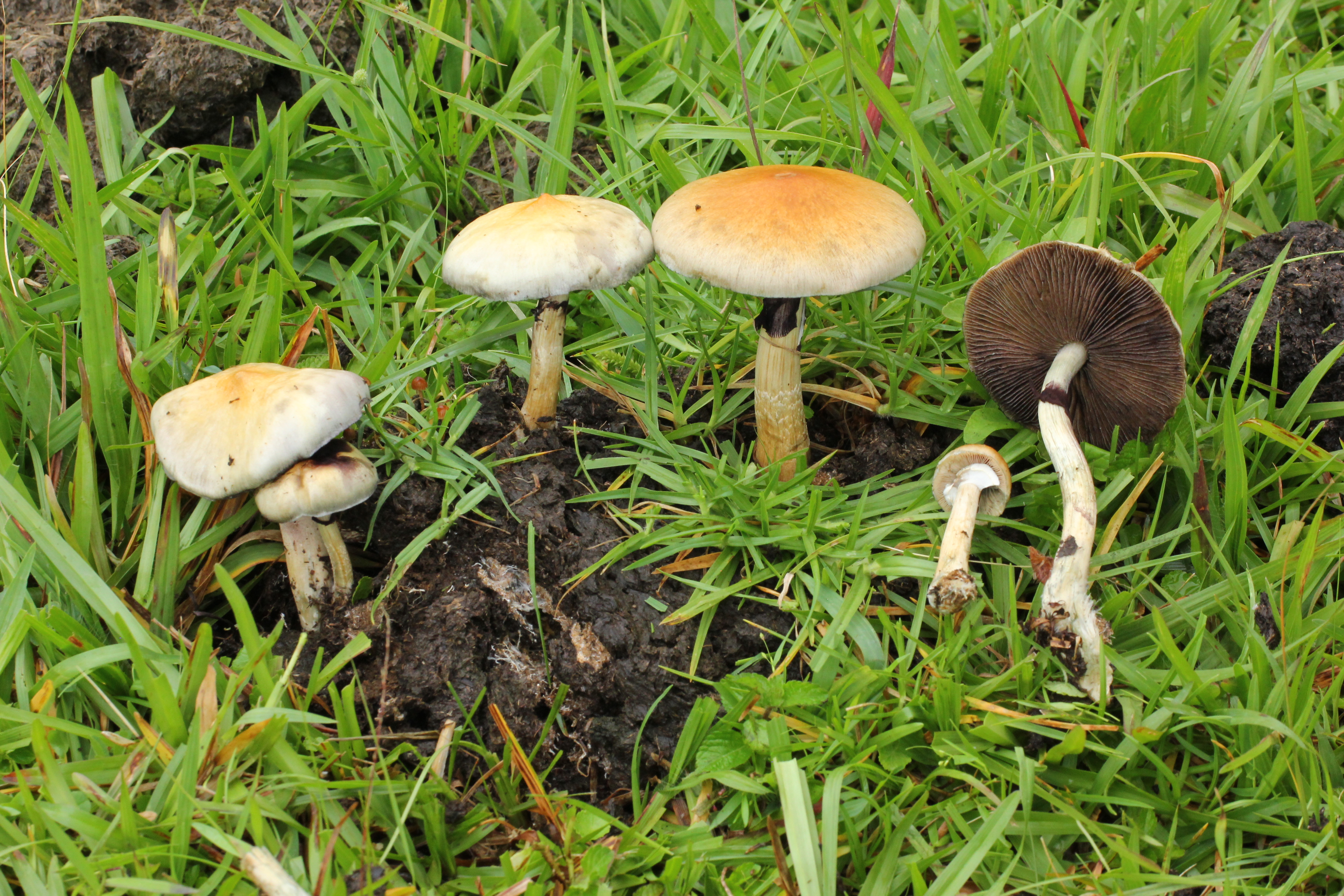 Psilocybe cubensis from Coyopolan, Veracruz, Mexico.